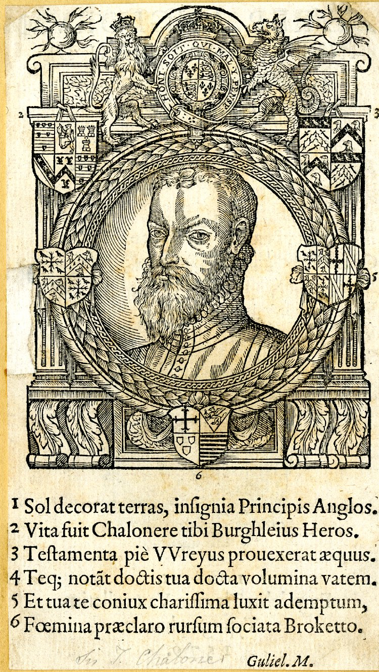 Portrait of Sir Thomas Chaloner, woodcut frontispiece to his 'De rep. Anglorum instauranda' (1579). 115 mm x 85 mm. Courtesy of the British Museum, London.